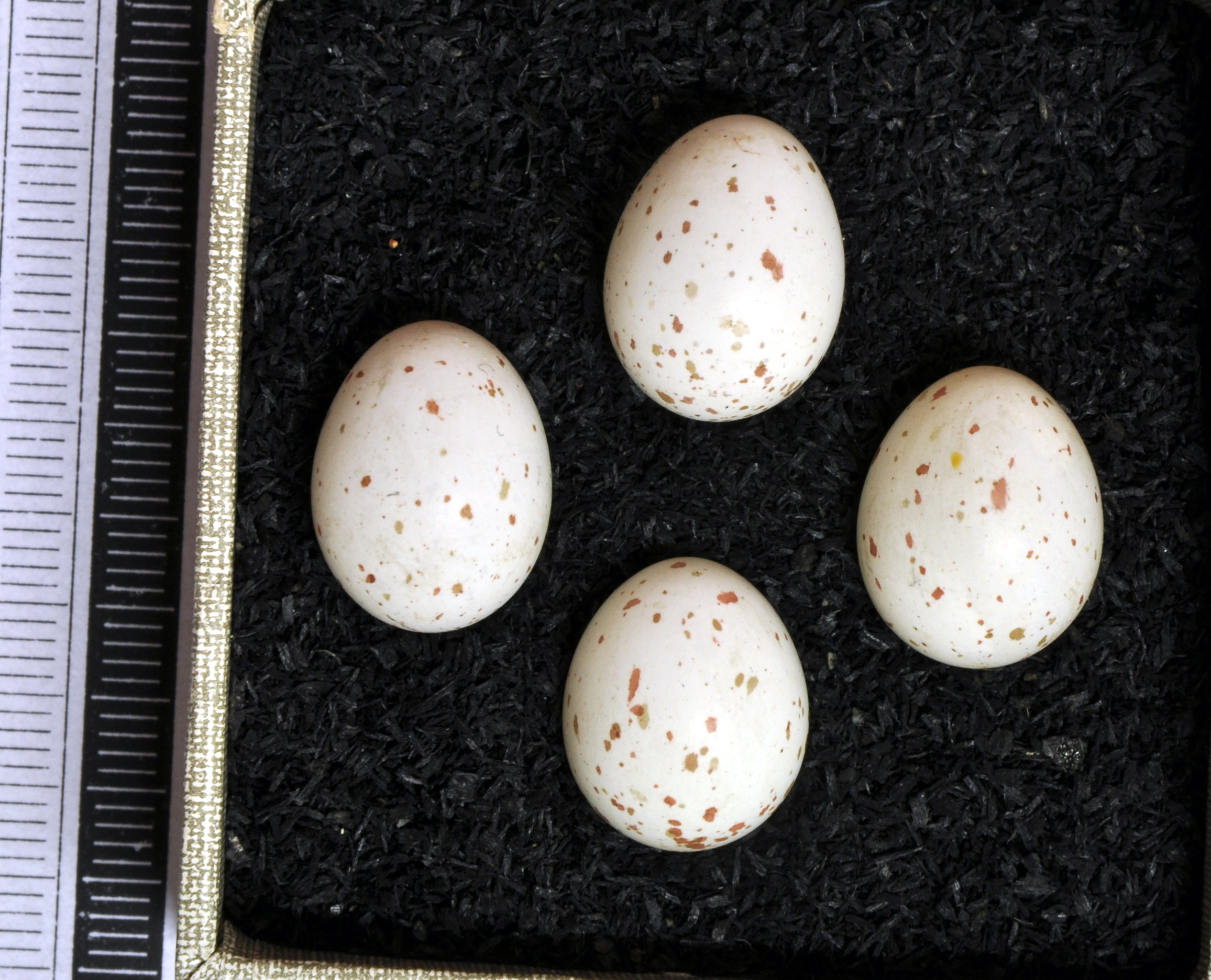 Grey-headed chickadee Poecile cinctus , egg, Coll. Museum Wiesbaden